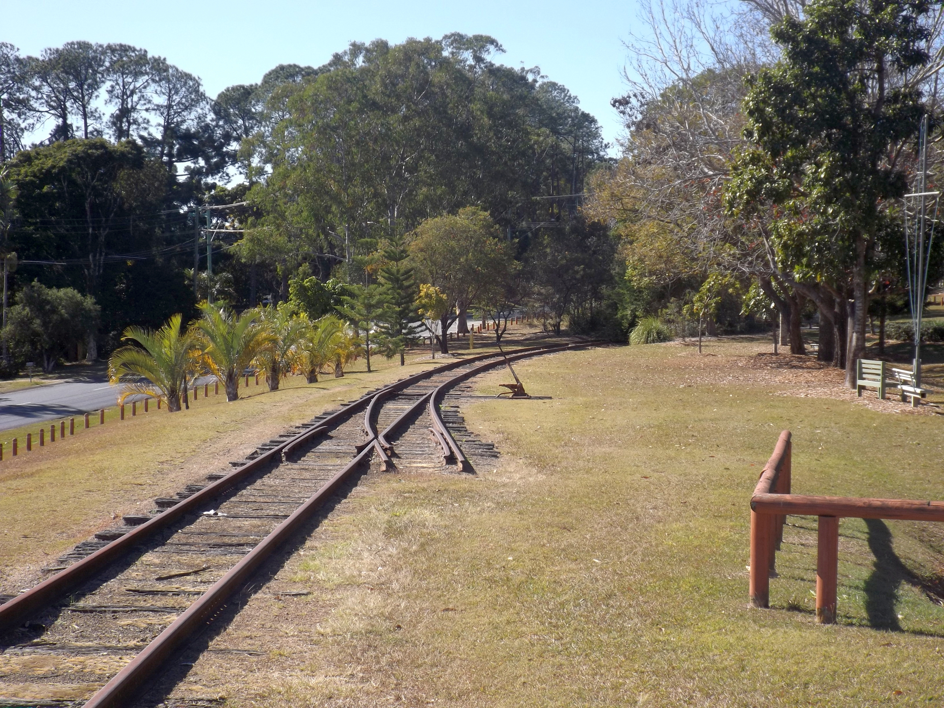 Photo of Kilcoy railway at Wamuran, Moreton Bay Region, Queensland, Australia.